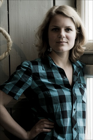 Johanne Schmidt-Nielsen - 2011